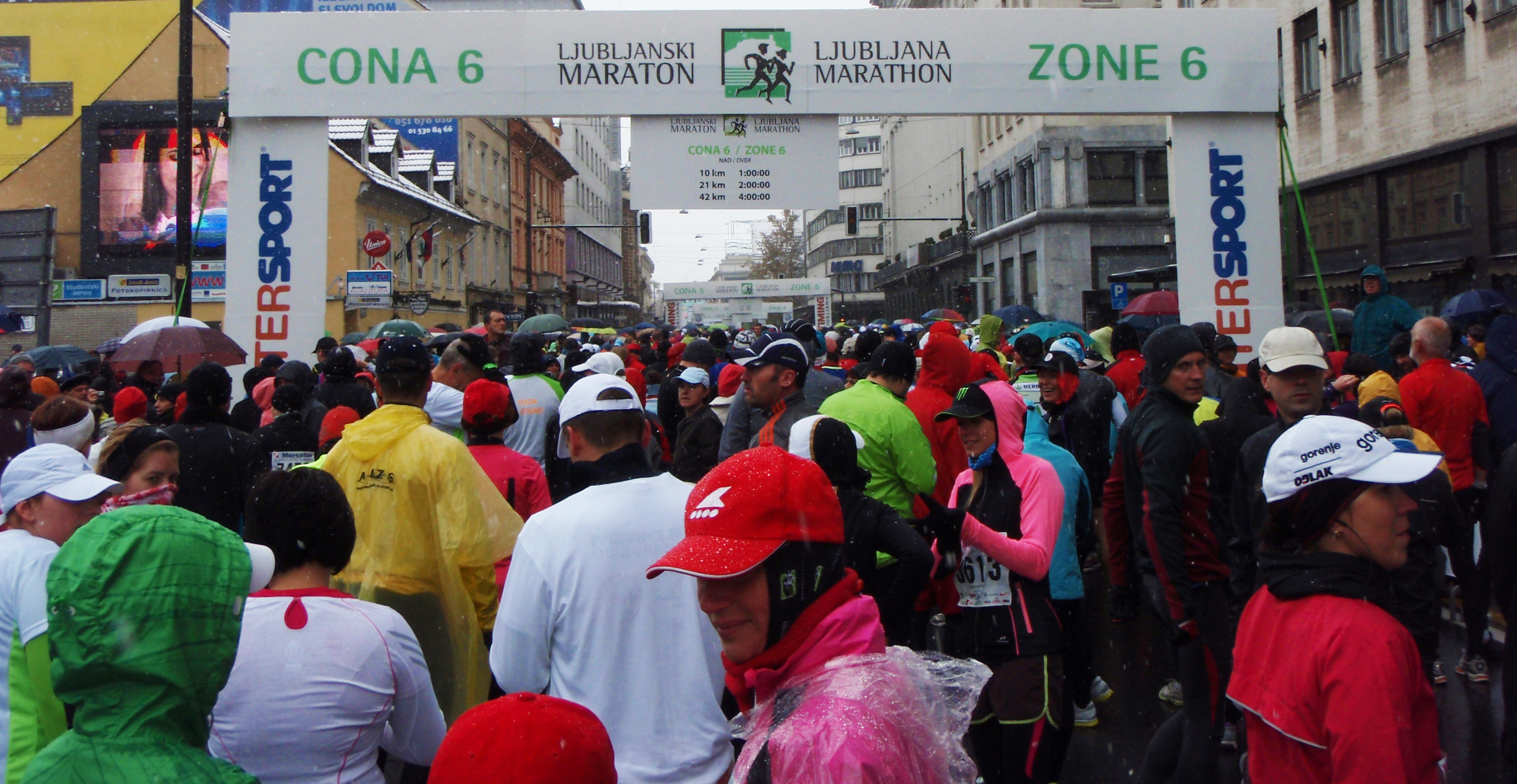 Start of 17. Ljubljana marathon - year 2012.